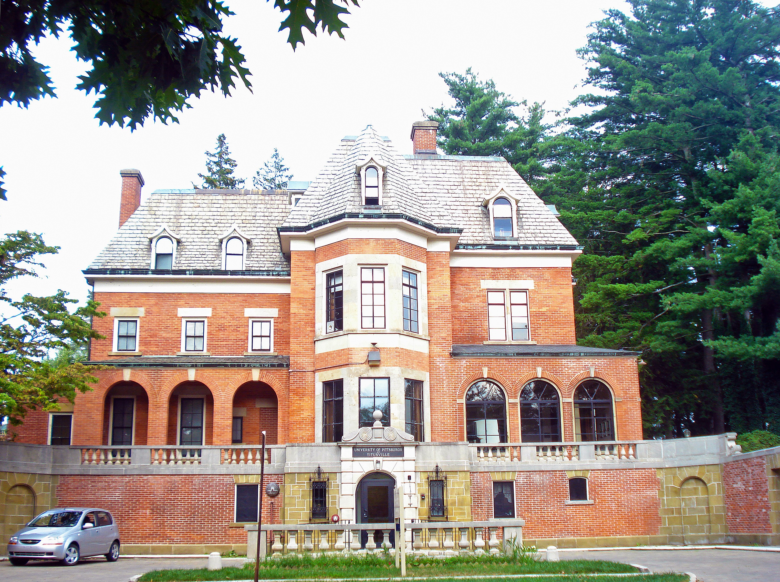 Main adminstrative at UPT